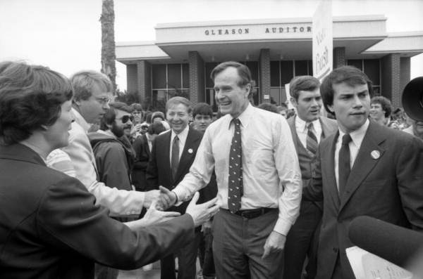 Local call number: DND0681 Title: George H.W. Bush campaigning in Melbourne, Florida Date: 1980 Physical descrip: 1 photonegative - b&w - 35 mm. Photographer: Series Title: Repository: 500 S. Bronough St., Tallahassee, FL 32399-0250 USA. Contact: 850.245.6700. Persistent URL